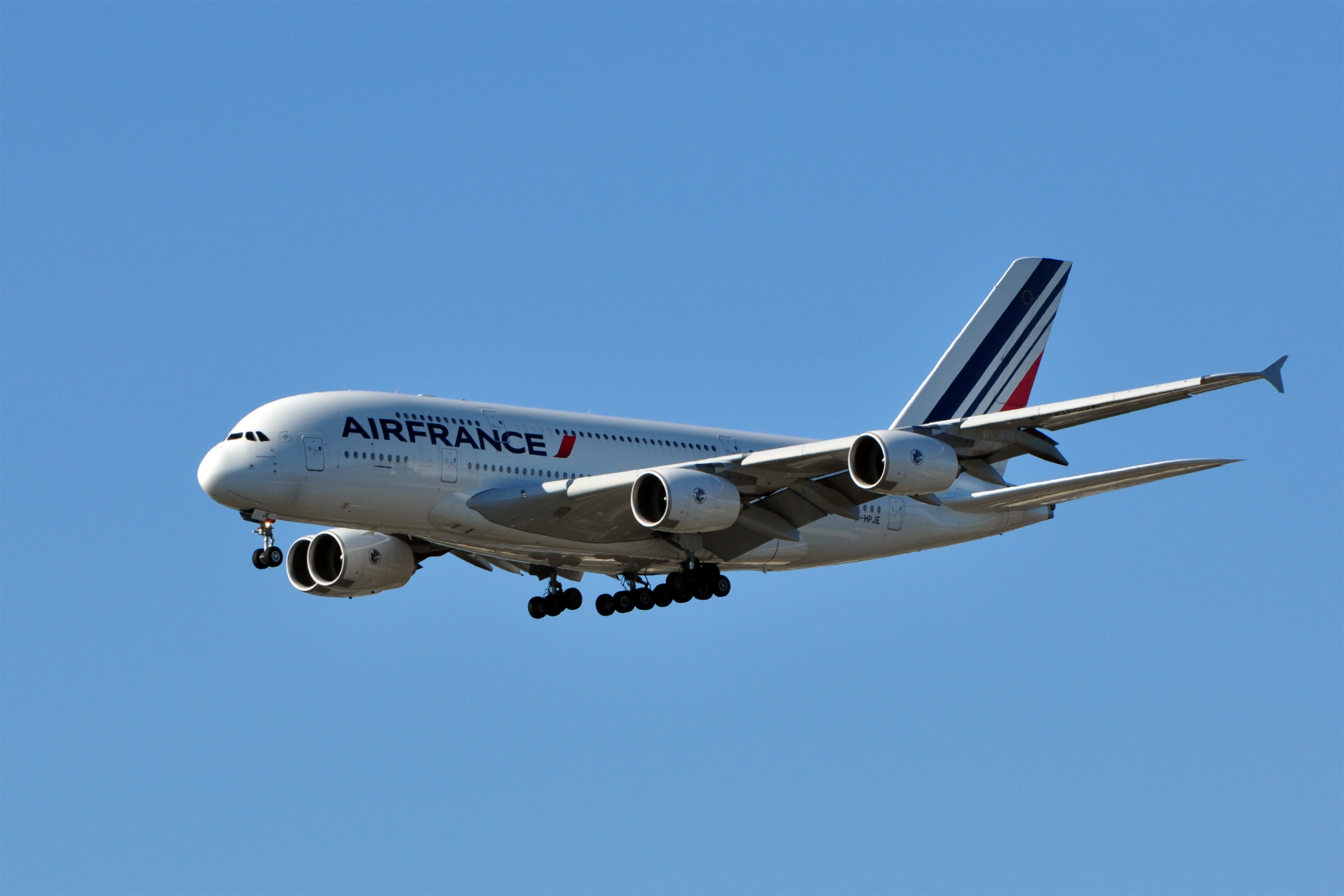 Air France A380 F-HPJE landing at Washington Dulles International Airport in Virginia, USA.